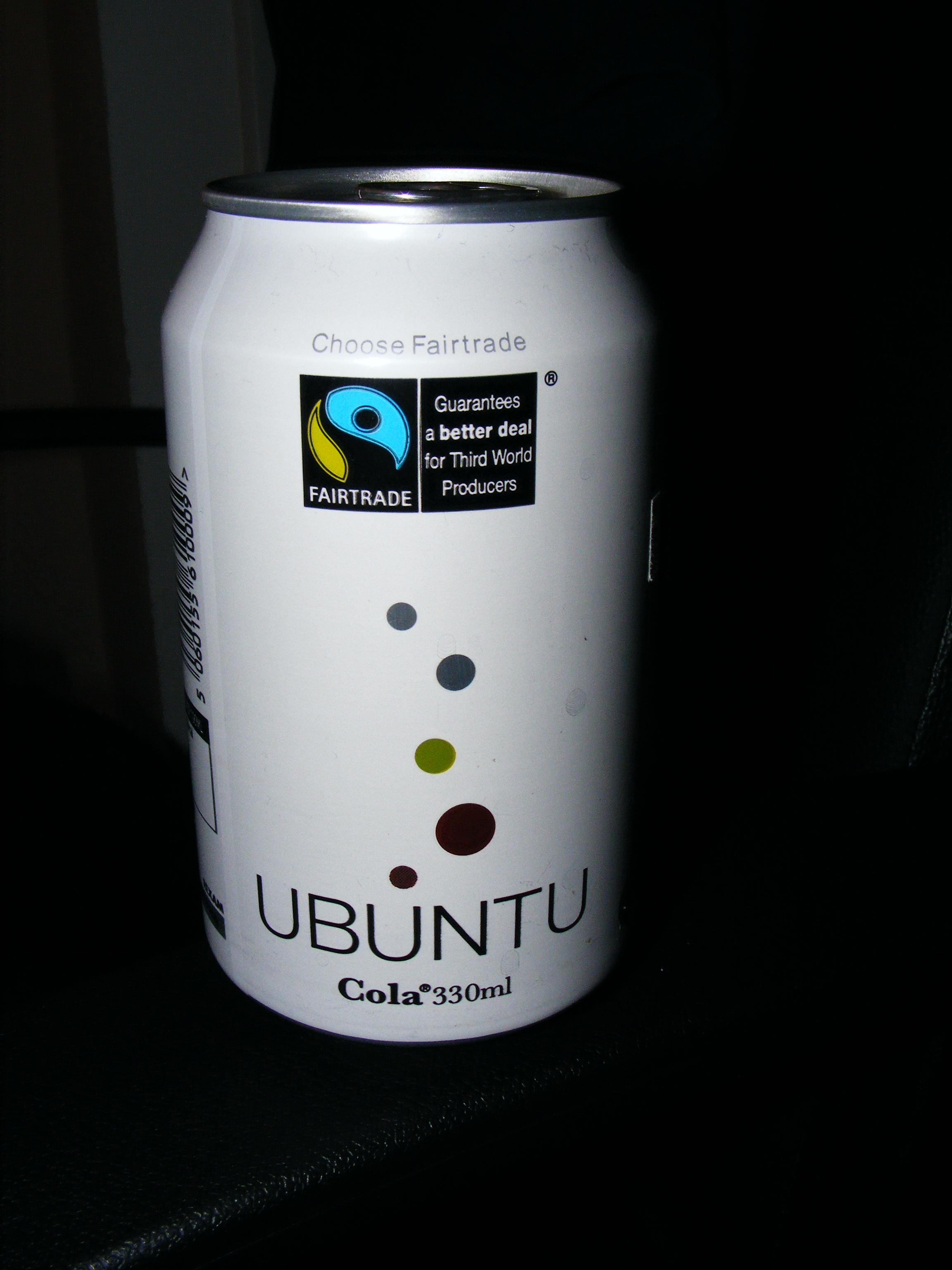 Ubuntu Cola, a soft drink by the Fairtrade Foundation